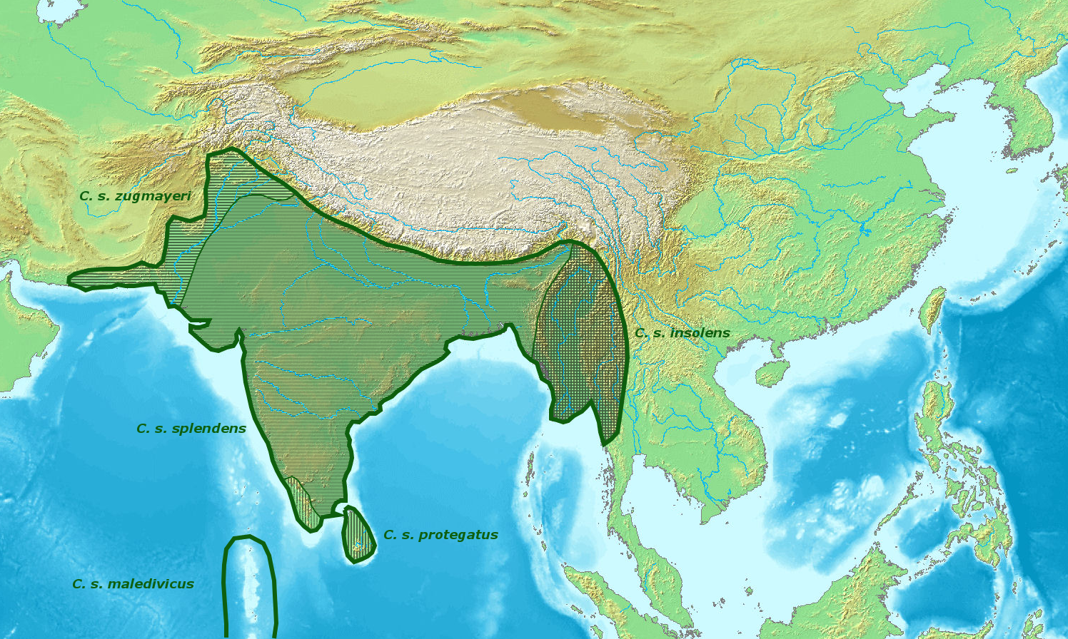 Native distribution of the House Crow (Corvus splendens) in southern Asia with subspecies shown.Sources: Salím Ali, S. Dillon Ripley: Handbook of the Birds of India and Pakistan. Volume 5: Larks to the Grey Hypocolius. Oxford University Press, London 1972, pp. 243244 John Ramsay MacKinnon, Karen Phillipps: A Field Guide to the Birds of China. Oxford University Press, London 2000. ISBN 0198549407, pp. 10 & 271. Bikram Grewal, Bill Harvey, Otto Pfister: A Photographic Guide to the Birds of India and the Indian Subcontinent, including Pakistan, Nepal, Bhutan, Bangladesh, Sri Lanka & the Maldives. Princeton University Press, Princeton 2002. ISBN 069111496X, p. 251. Joseph del Hoyo, Andrew Elliot, David Christie (Hrsg.): Handbook of the Birds of the World. Volume 14: Bush-shrikes To Old World Sparrows. Lynx Edicions, Barcelona 2009. ISBN 9788496553507, p. 618. Morten Strange: A Photographic Guide to the Birds of Southeast Asia Including the Philippines & Borneo. Princeton University Press, Princeton 2003. ISBN 0691114943, p. 259.